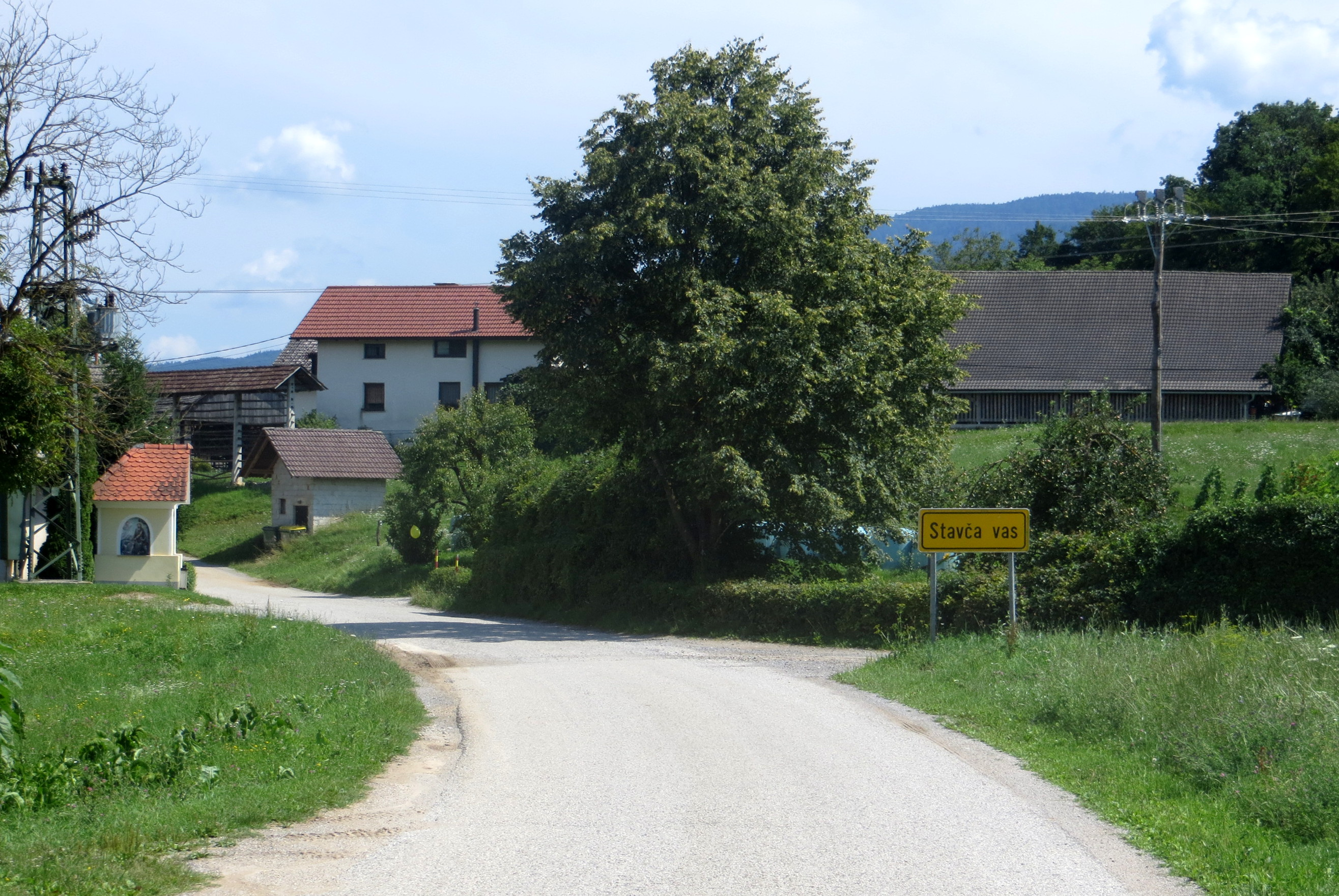 Stavča Vas, Municipality of Žužemberk, Slovenia